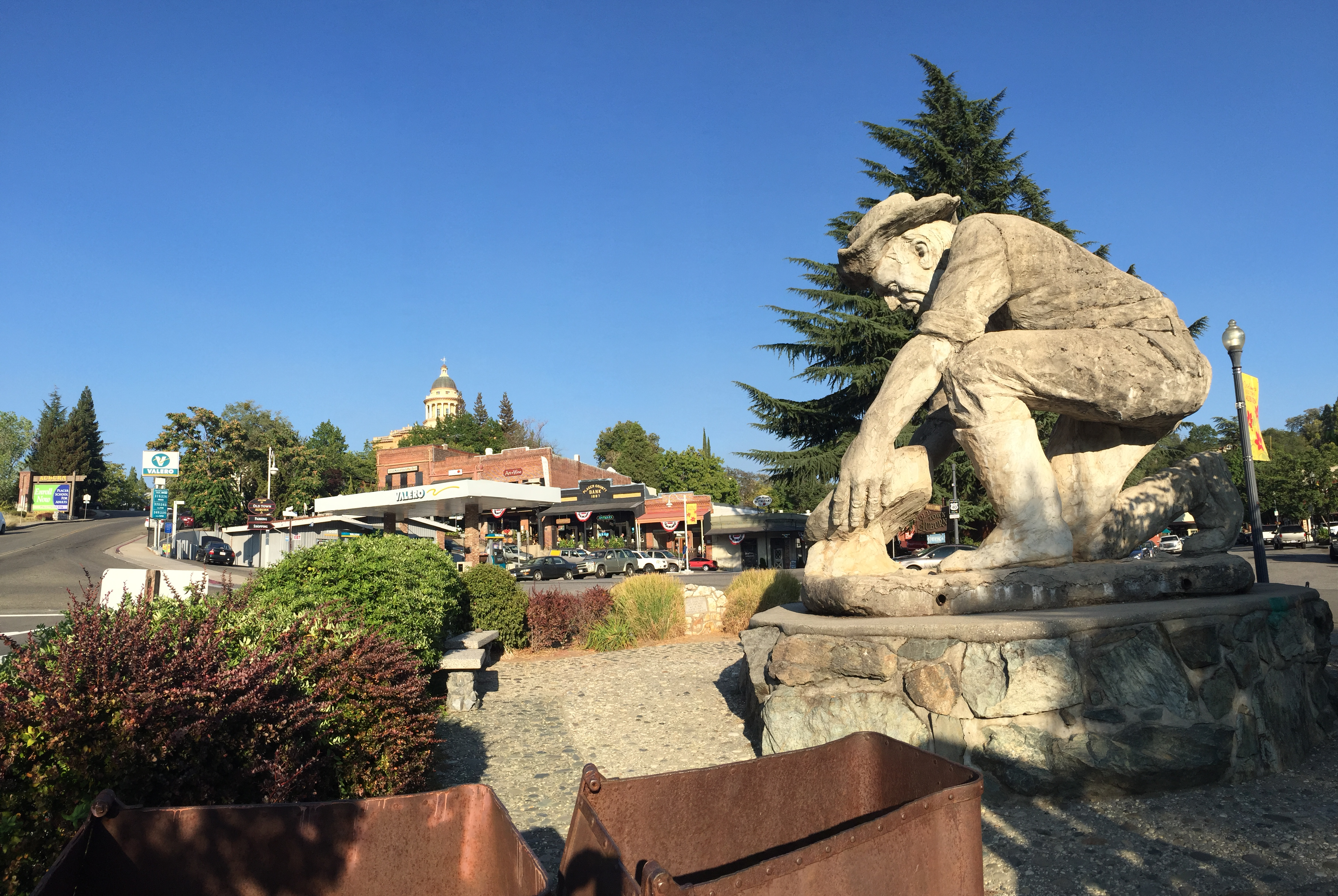 Downtown Auburn California